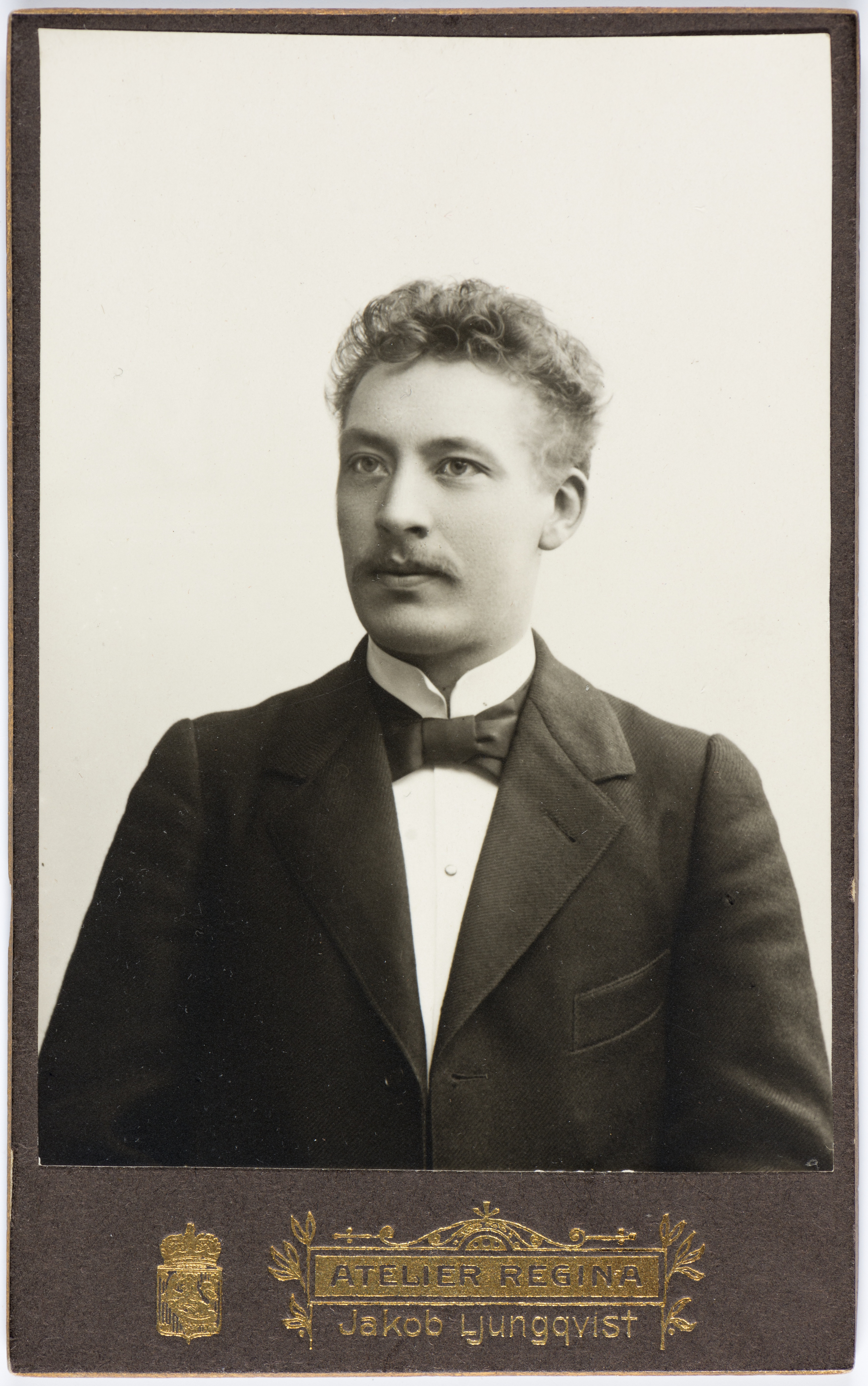 Photograph of the Finnish archaeologist Juhani Rinne (1872–1950).